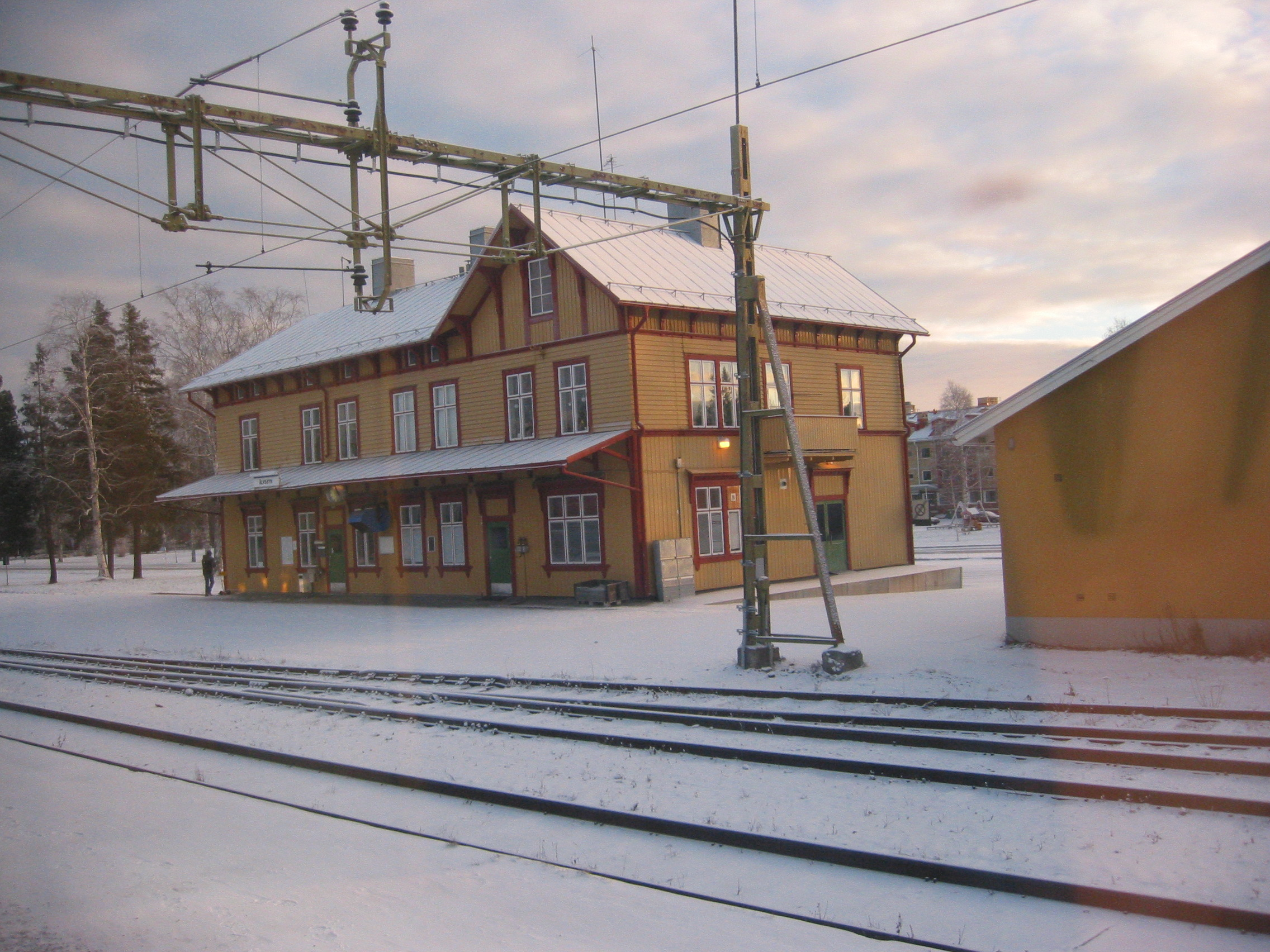 The railway station of Älvsbyn in Norrbotten, Sweden